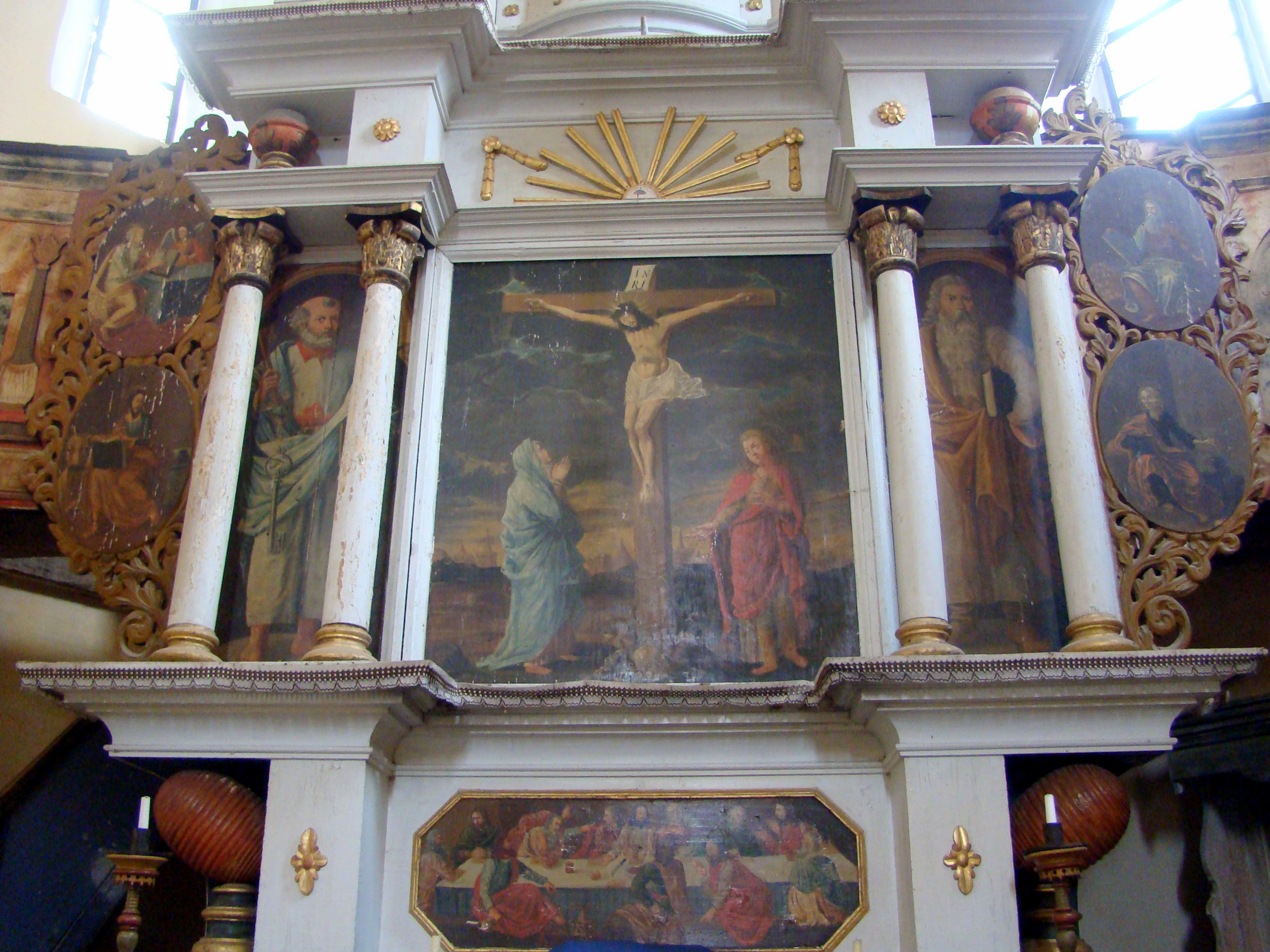 Lutheran church in Cloașterf, Mureș county, Romania